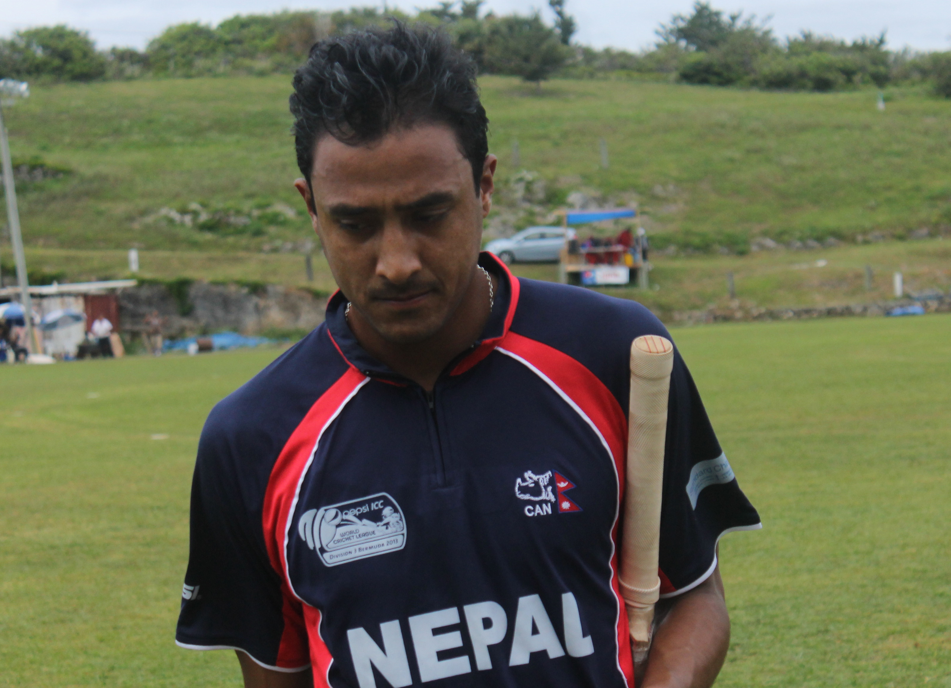 Paras Khadka, during ICC Division three cricket league 2013 By:Roshan Bahadur Singh